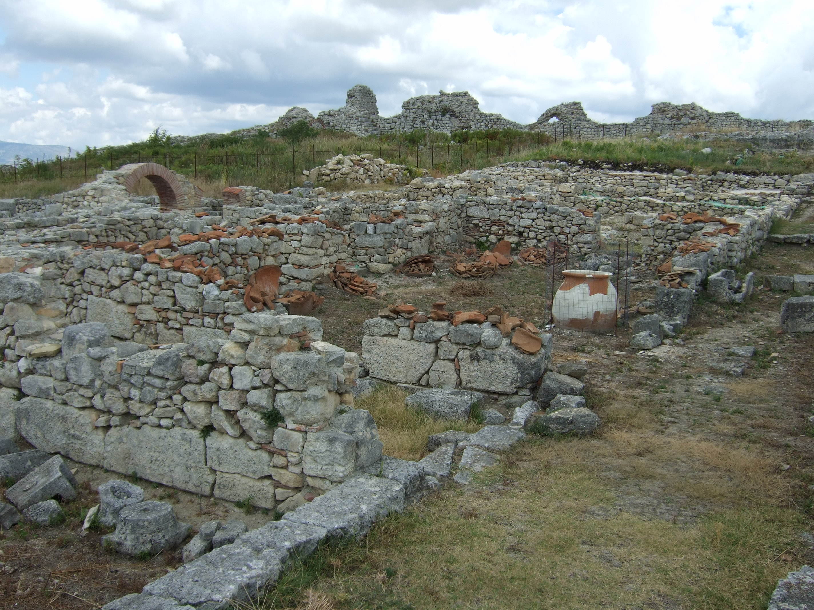 part of the cathedral of Byllis